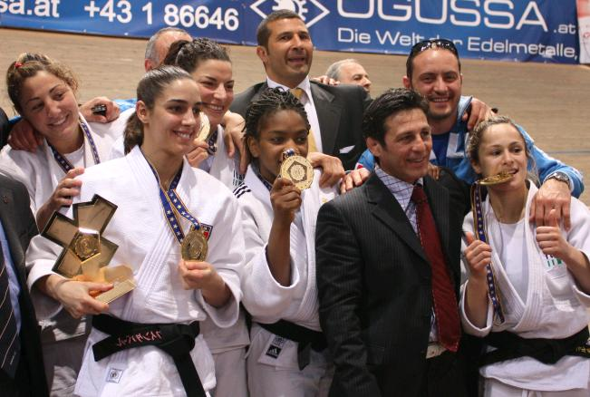 The Italian women's team celebrating their gold medal in the team competition at the 2010 European Judo Championships in Vienna